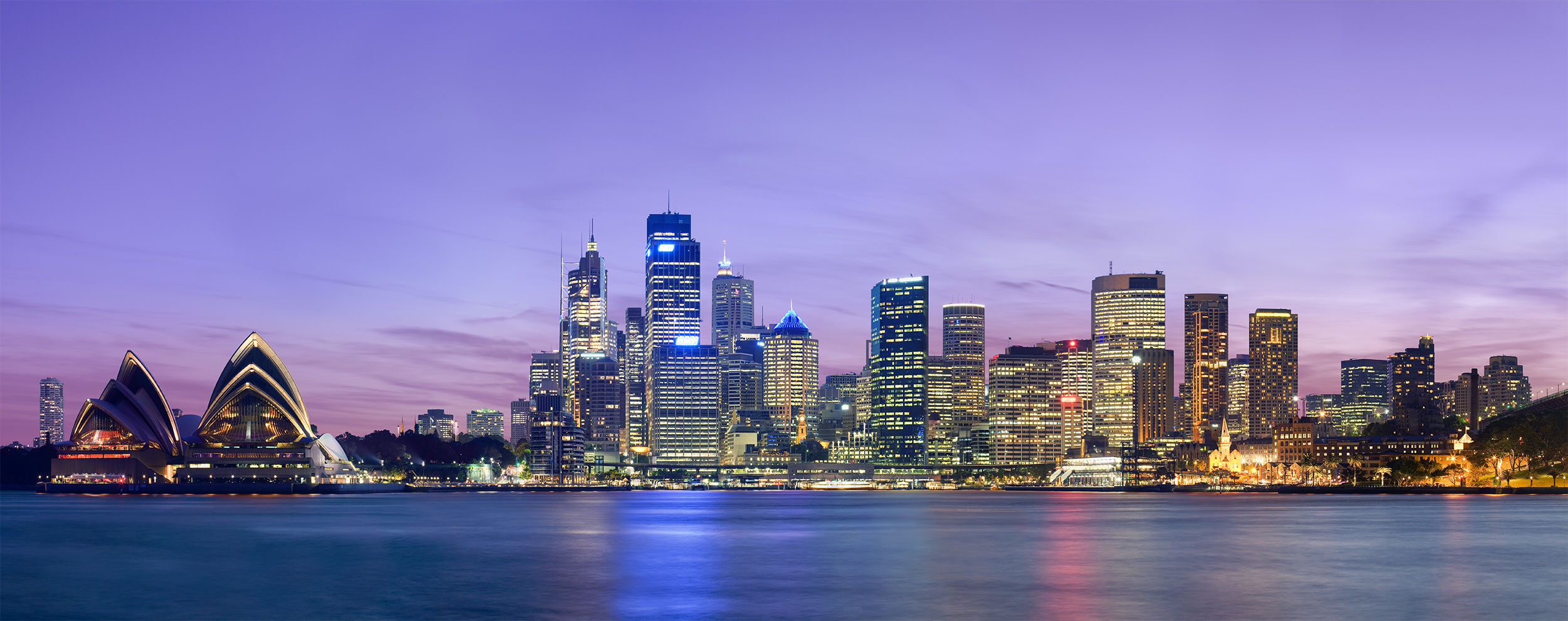 A panoramic view of the Sydney skyline as viewed across Sydney Harbour from Kirribilli. Taken by myself with a Canon 5D and 100mm f/2.8 lens. This is an exposure blended image.